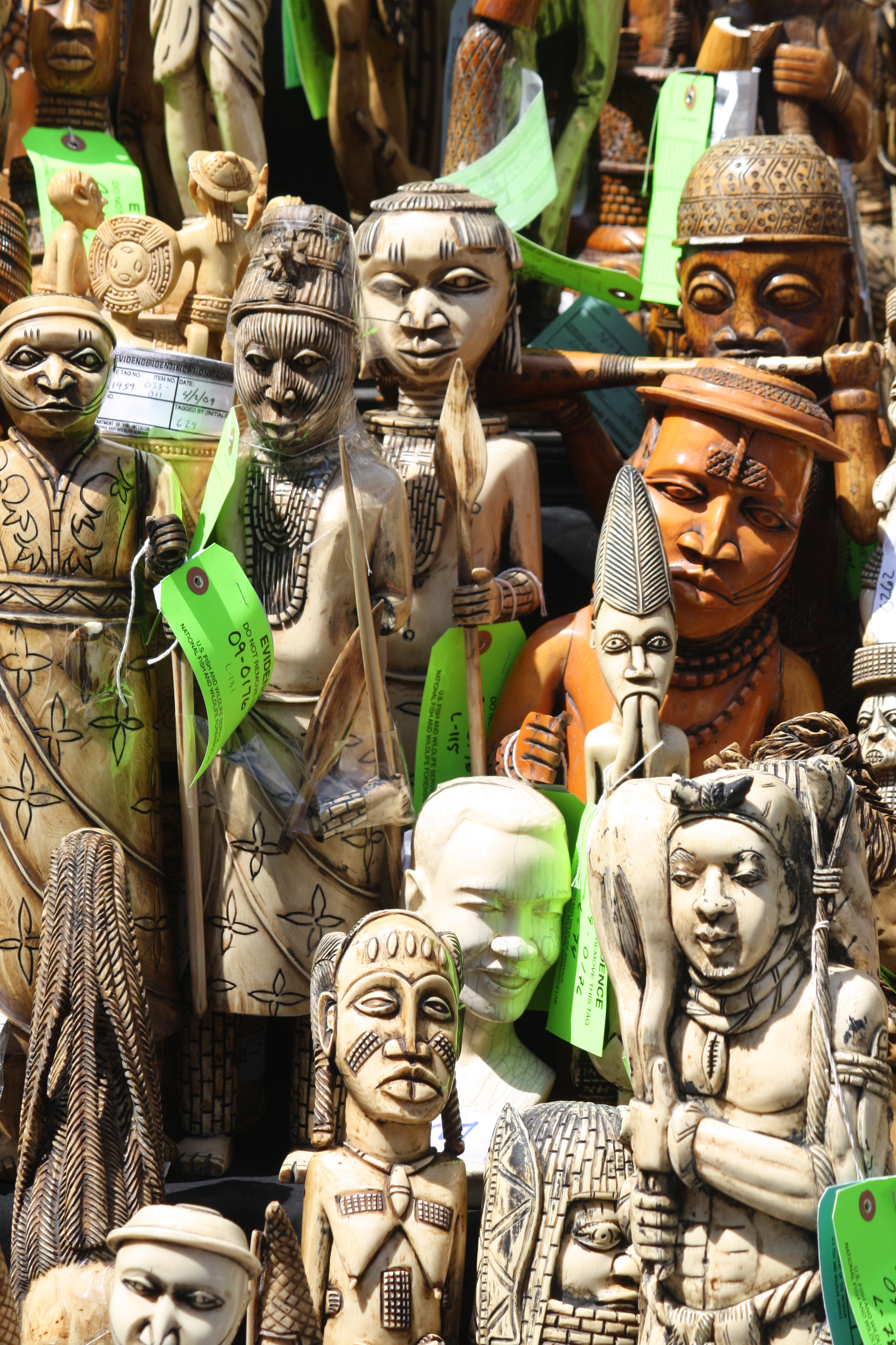 Photo Credit: Alexa Marcigliano/FWS On the morning of June 19, 2015, in Times Square, New York City, the U.S. Fish and Wildlife Service, with wildlife and conservation partners, hosted its second ivory crush event. One ton of ivory we seized during an undercover operation, plus other ivory from the New York State Department of Environmental Conservation and the Association of Zoos and Aquariums was crushed.